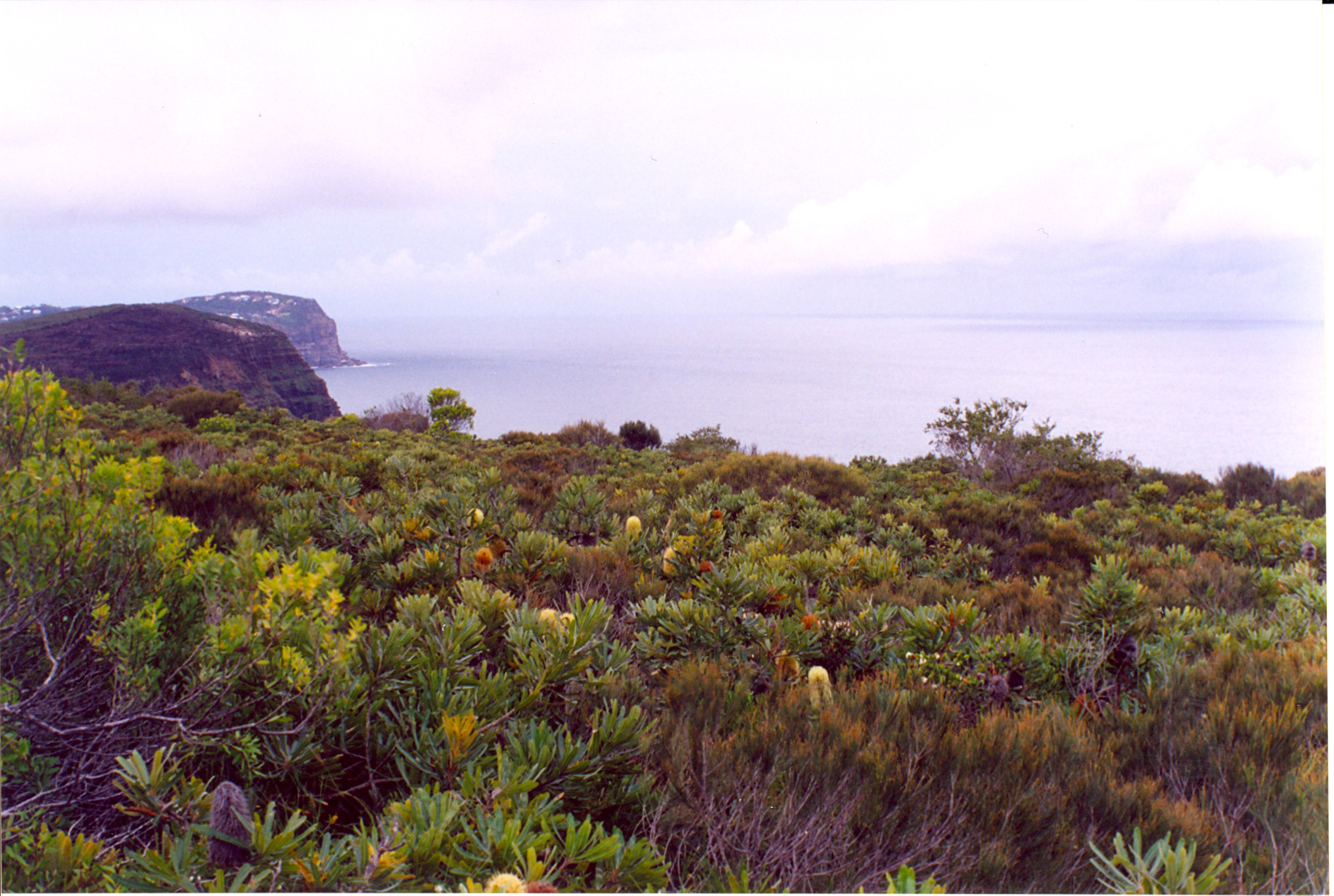 Bombi Moors dominated by Banksia aemula in Bouddi National Park.